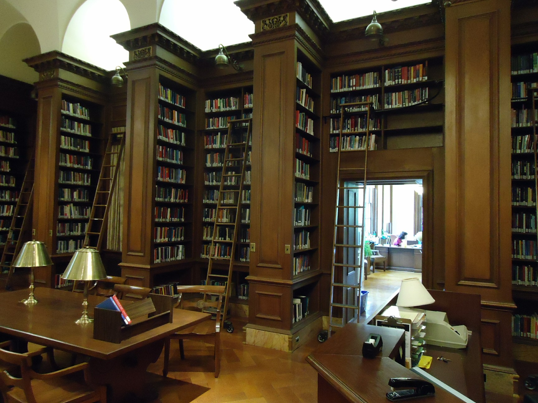 A photo from a campus tour of Lafayette College in Easton, Pennsylvania. Lafayette is a liberal arts college on a hill near the Delaware River. A specialty library.